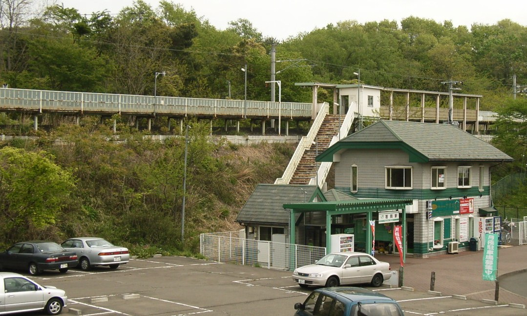 Kuzuoka Station on Senzan Line. Gōroku, Aoba ward, Sendai, Miyagi prefecture, Japan. Toward northeast.